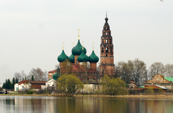 Velikoe